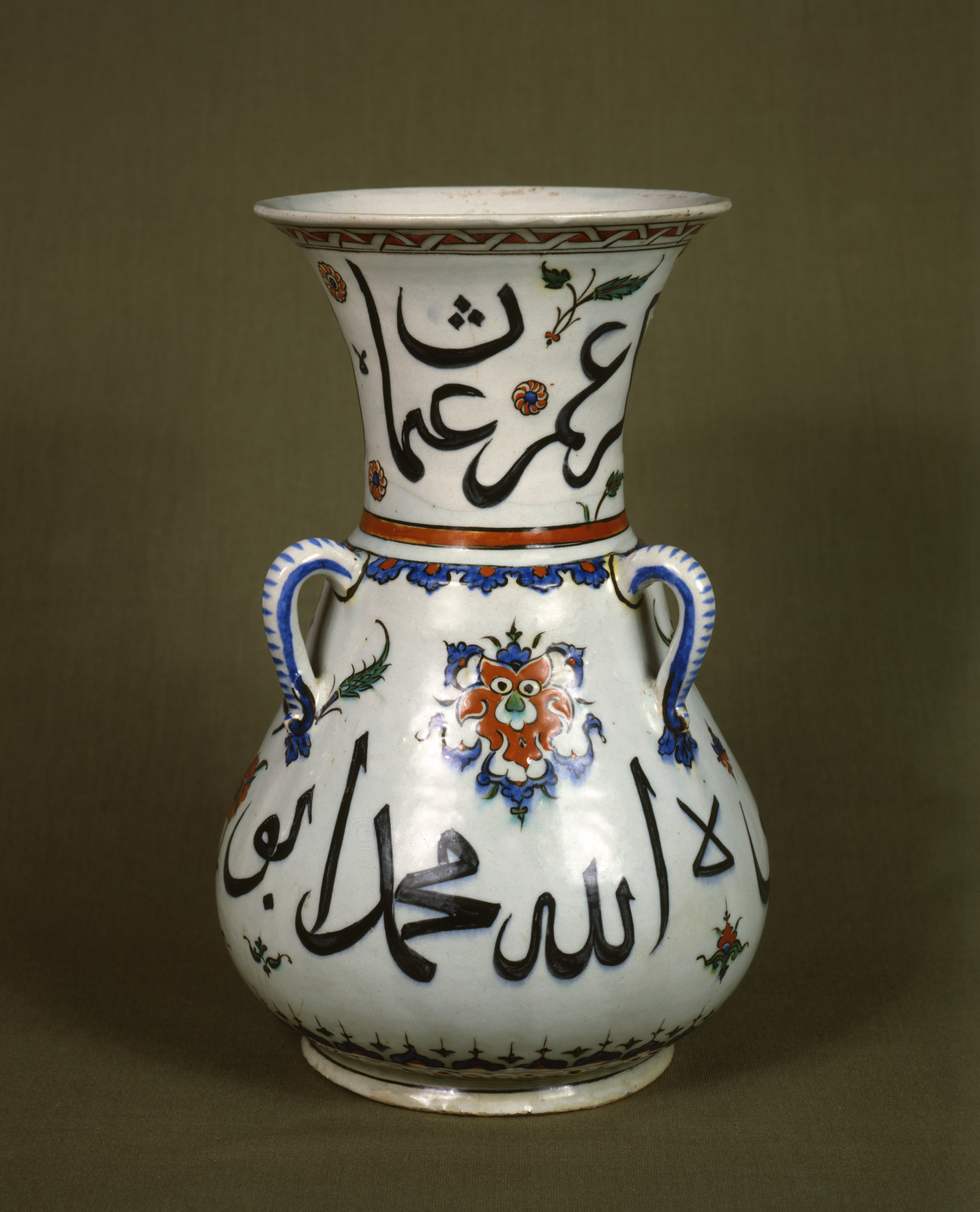 Islamic religious buildings traditionally were lit with glass lamps, generally called mosque lamps, that hung from chains. In 16th-century Turkey, it was common to make mosque lamps from glazed ceramic and to pair them with round or oval ornaments. Such ceramic pieces were of little use as lighting fixtures. They may have functioned, however, as acoustic devices, hung in groups to soften the echo of voices in the prayer hall. Mosque lamps were also symbols of divine light, and, therefore, of God's presence in the place of prayer, while the ornamental spheres symbolized the orb of heaven. This beautiful Iznik Rhodianware ceramic lamp is adorned with the names of God and the Prophet- Allah and Muhammad- followed by those of the first four leaders of the Islamic caliphate, or government: Abu Bakr, Umar, Uthman, and Ali. The inscribed names, written in a large Arabic script called thuluth, confirm that the lamp was intended for symbolic as well as aesthetic purposes.